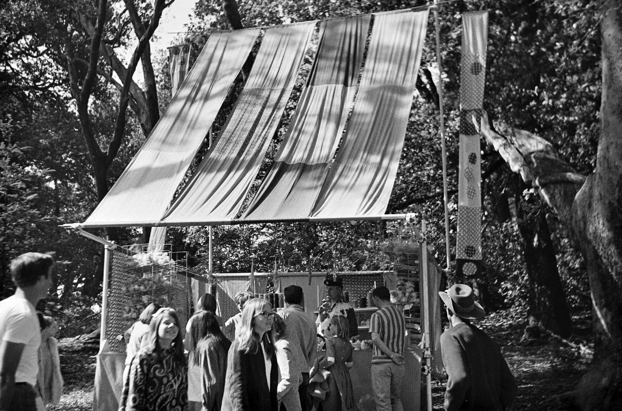 Patrons at a candle vendor's booth and concert attendees at the KFRC Fantasy Fair and Magic Mountain Music Festival in Marin County, California, United States in June, 1967 Original title: KFRC Fantasy Fair 1967: One of the booths at the fair